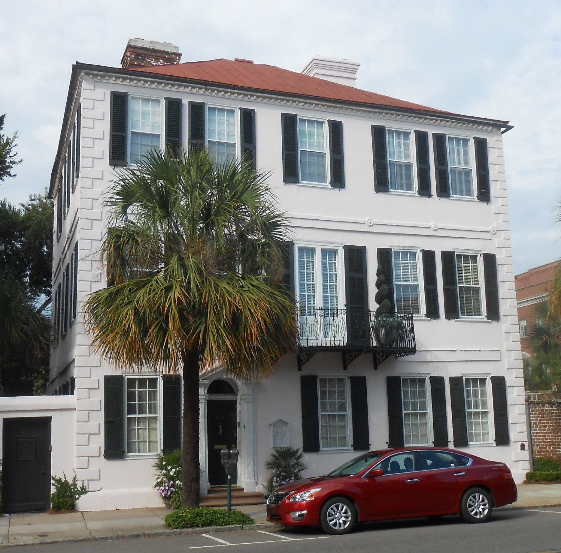 108 Broad St., Charleston, South Carolina